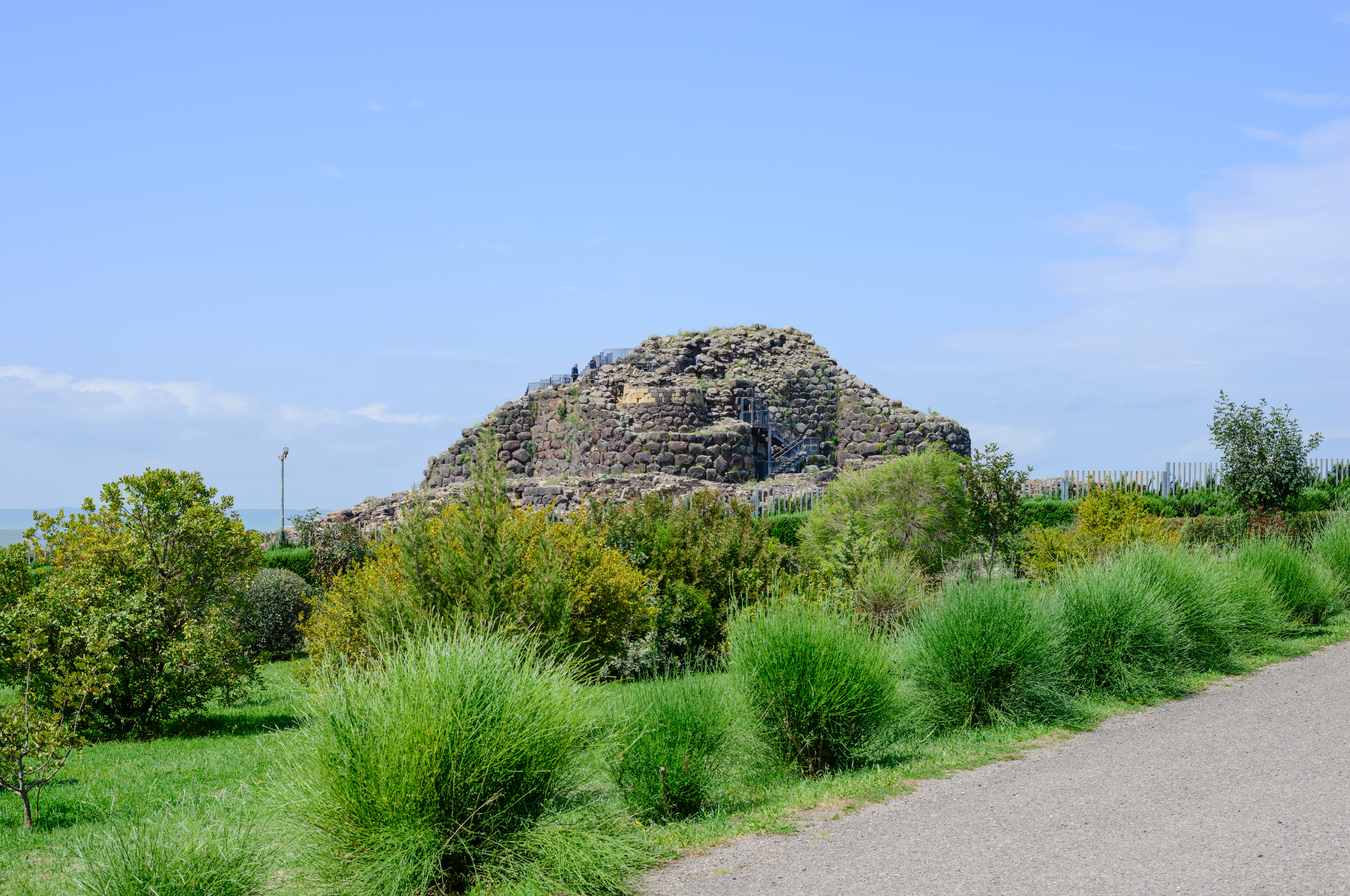 Su Nuraxi is a nuragic archaeological site in Barumini, Sardinia, Italy. The complex is centred around a three-storey tower built around the 16th century BC.